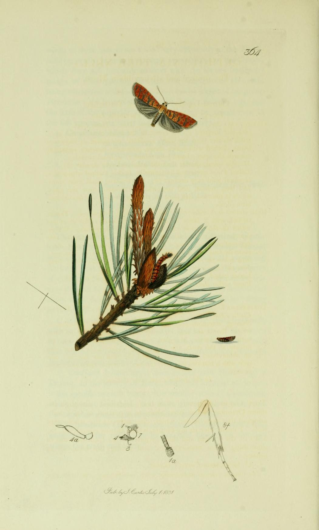 An illustration from British Entomology by John Curtis. Lepidoptera: Orthotaenia turionella or Blartesthia turionella = Pseudococcyx ?(Orange and Silver Ribbon).